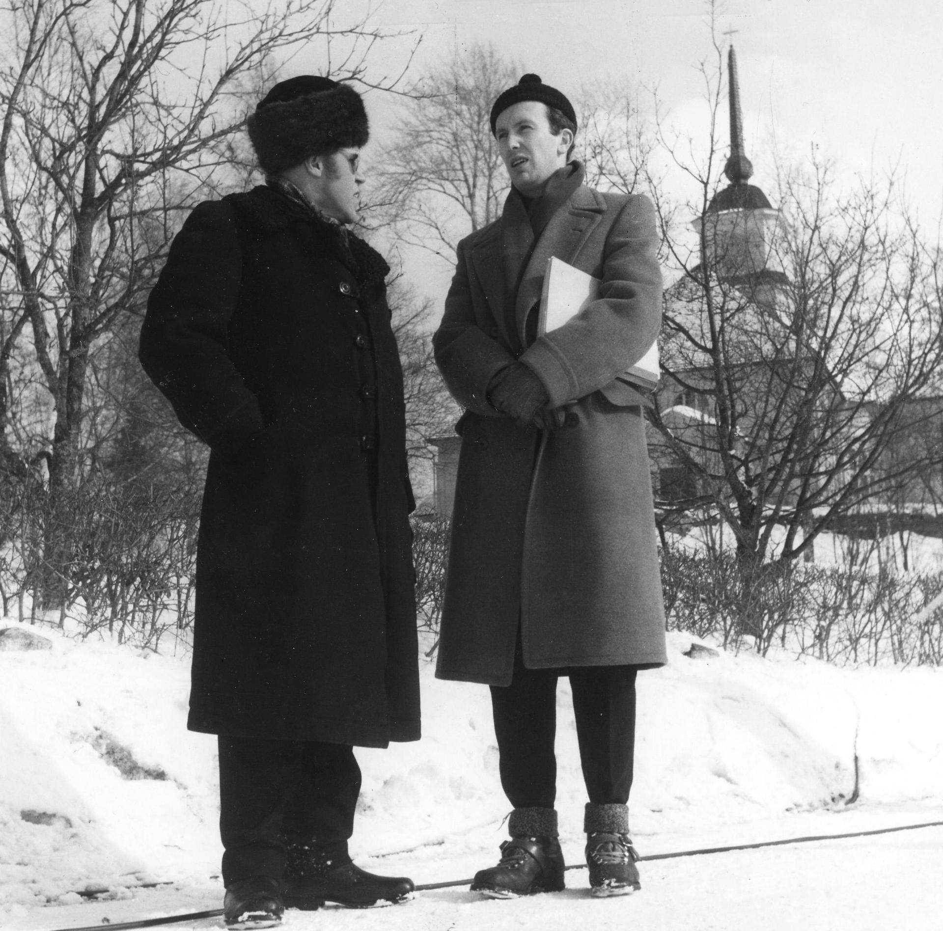 Photograph of the Finnish filmmakers Edvin Laine and Matti Kassila.